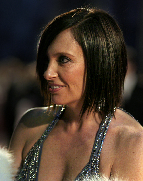 Toni Collett at the Orange British Academy Film Awards in London's Royal Opera House